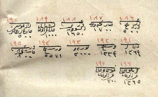 First settlements of Kailar Turks in Ottoman archives. A cropped version of this image.